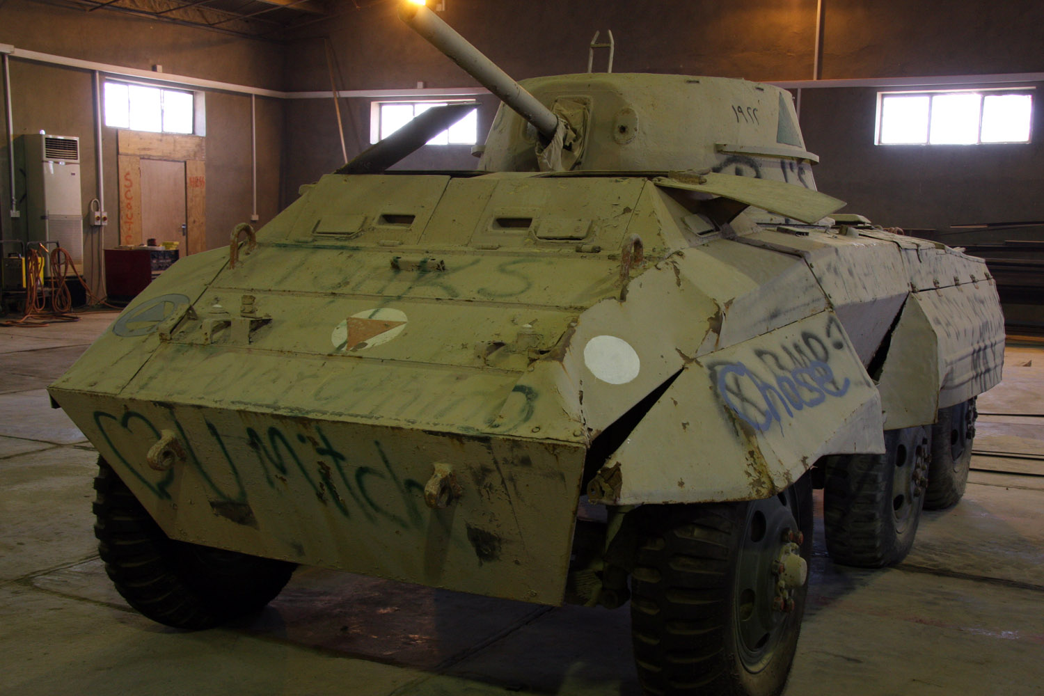 The M8 Light Armored Car, known as the Greyhound, produced by Ford Motor Company starting in 1943 and used by British troops as well as the 14th Cavalry Group in Europe and the Far East during World War II. Soldiers from the Combat Repair Team, Company B, 225th Brigade Support Battalion, found the vehicle in the equipment boneyard on Camp Taji, northwest of Baghdad, and are refurbishing it in hopes to ship it back to Schofield Barracks, Hawaii for display as a part of Calvary history.